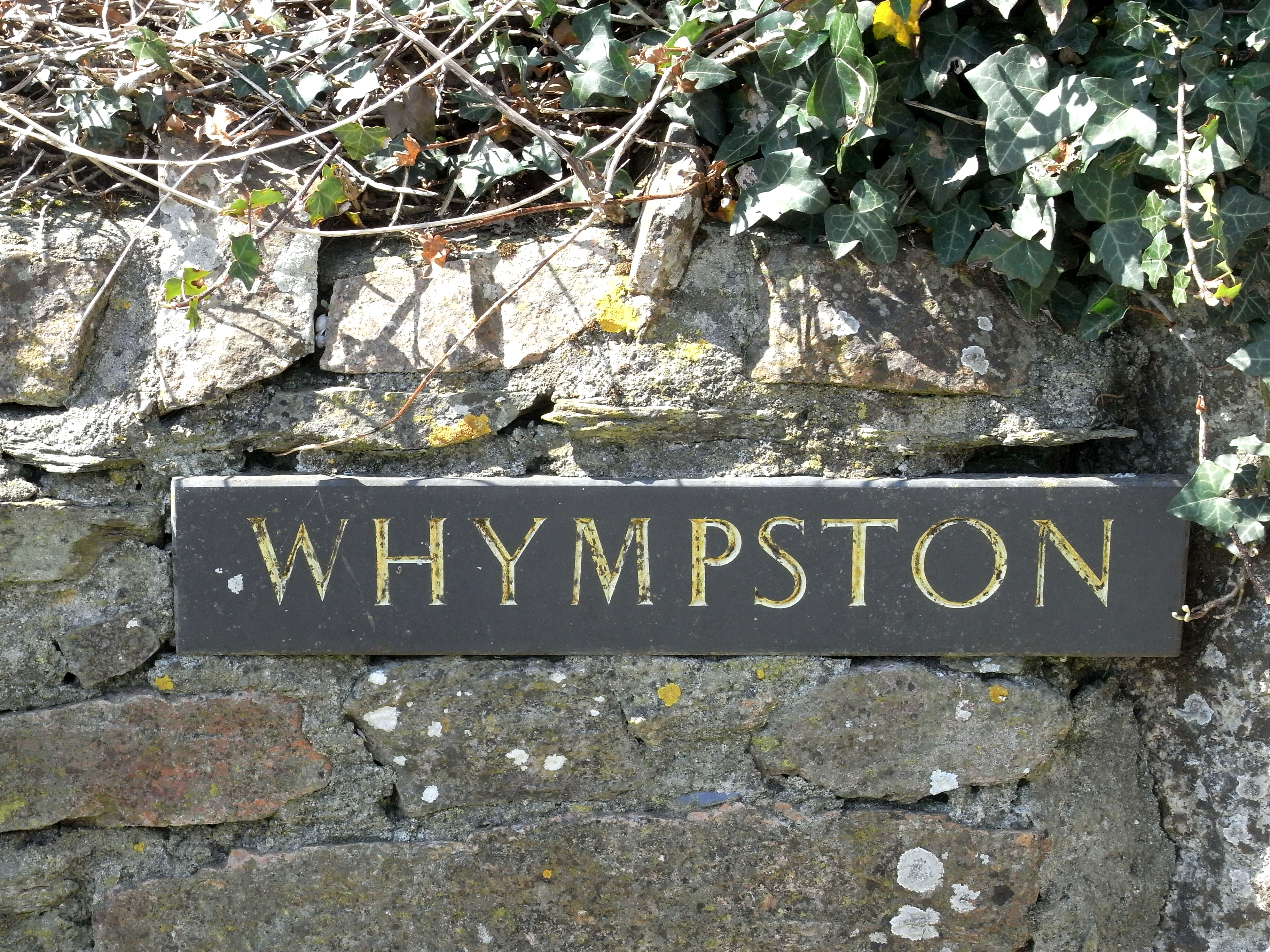 Sign at entrance to Whympston Farm in the parish of Modbury, Devon, showing the modern spelling of this 12th century original seat of the Fortescue family.